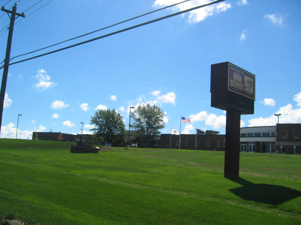 Zion-Benton Township Highschool, Zion, Illinois